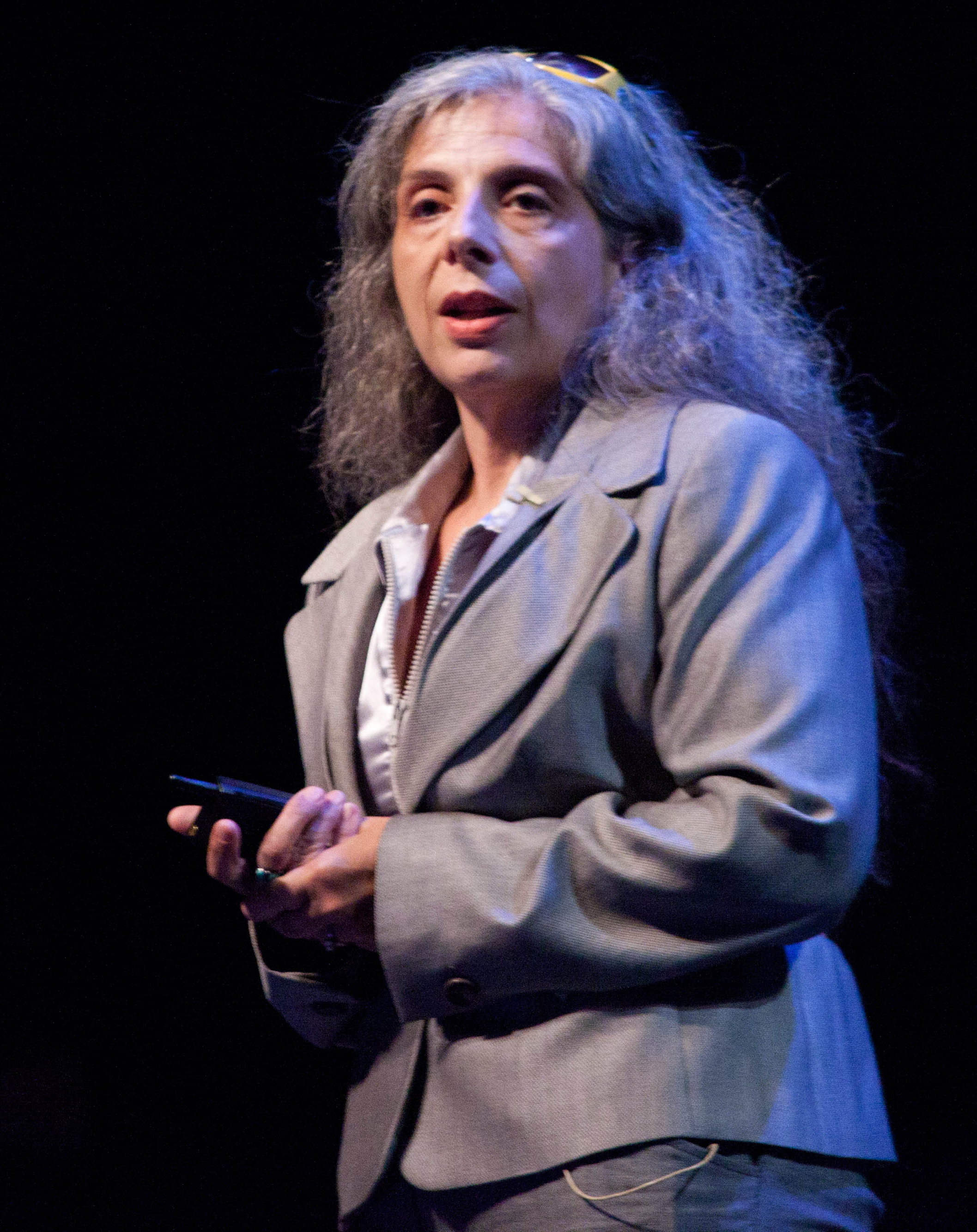 Constance Adams speaking at TEDxHouston in Houston, Texas, U.S.